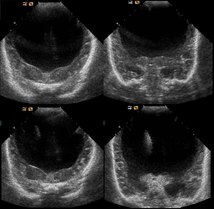 lobar holoprosencephaly, sonography in an 4 month old